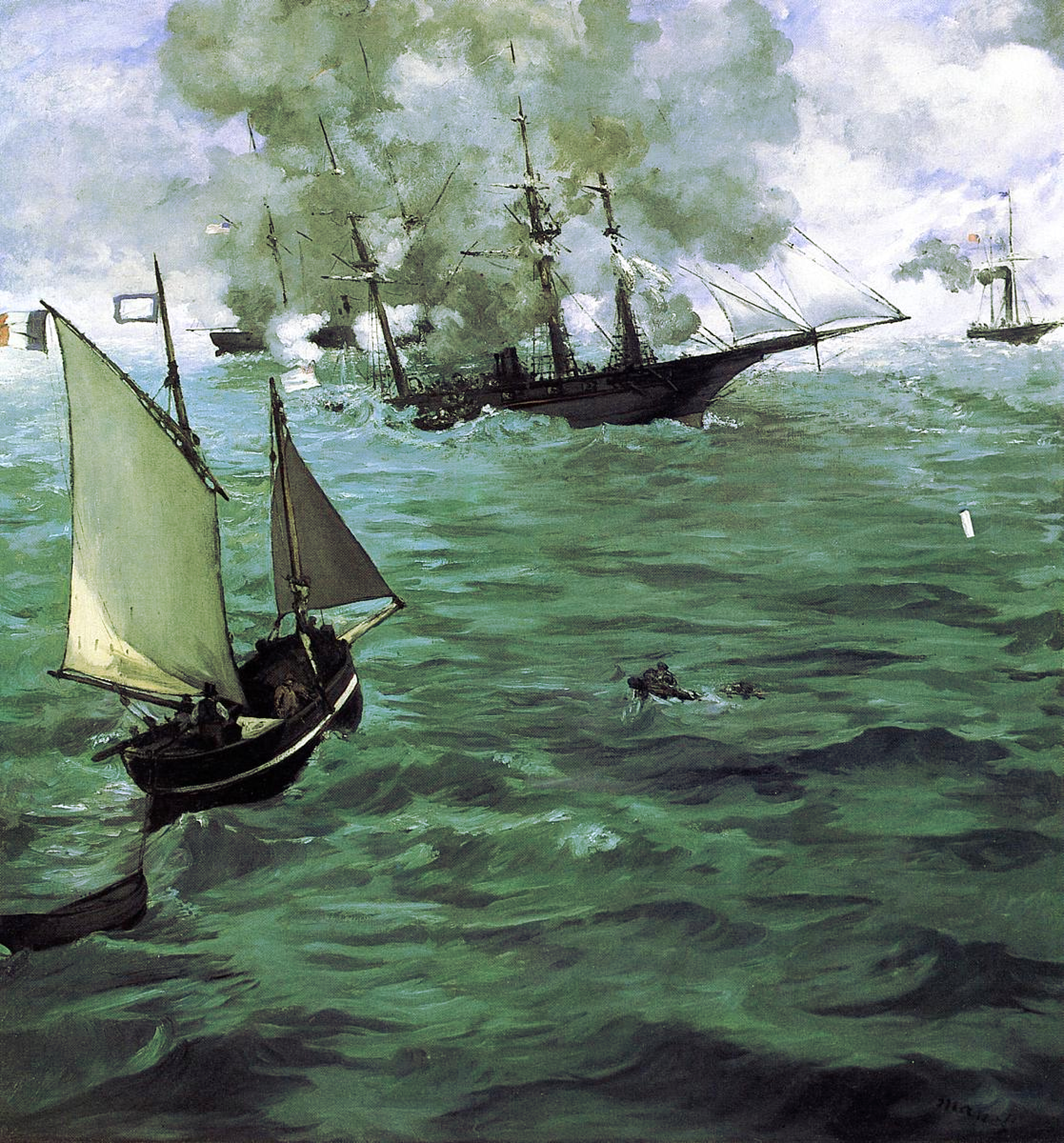 A picture of the Battle of Cherbourg, between the Kearsarge and the Alabama, june 19th, 1864. The battle is a part of the American Civil War.